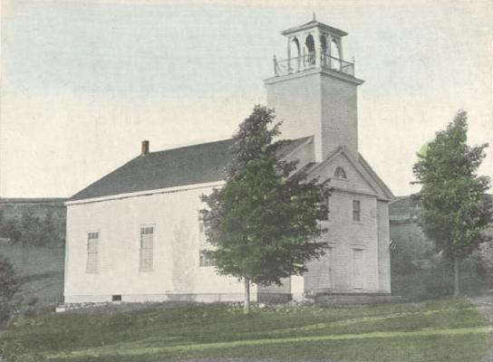 Deering Community Church, Deering, New Hampshire; from a c. 1903 postcard published by Harry D. Locke. It was designed and built in 1829 by Reuben Loveren.